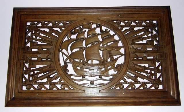 Wooden carving in Port Glasgow town hall One of a pair of wooden carvings, this one depicts the ship from Port Glasgow's coat of arms. An adjacent plaque reads "These carvings were designed and crafted in 1936 by the head of Glasgow School of Sculpture, Archibald Dawson, as part of a church improvement scheme which was funded by the members of Newark Parish Church and Sir James Lithgow." "These carvings were presented to Inverclyde District Council by the church elders on the dissolution of Newark Parish Church in 1988". See the other carving here 360926. See Newark Parish Church here 337514.